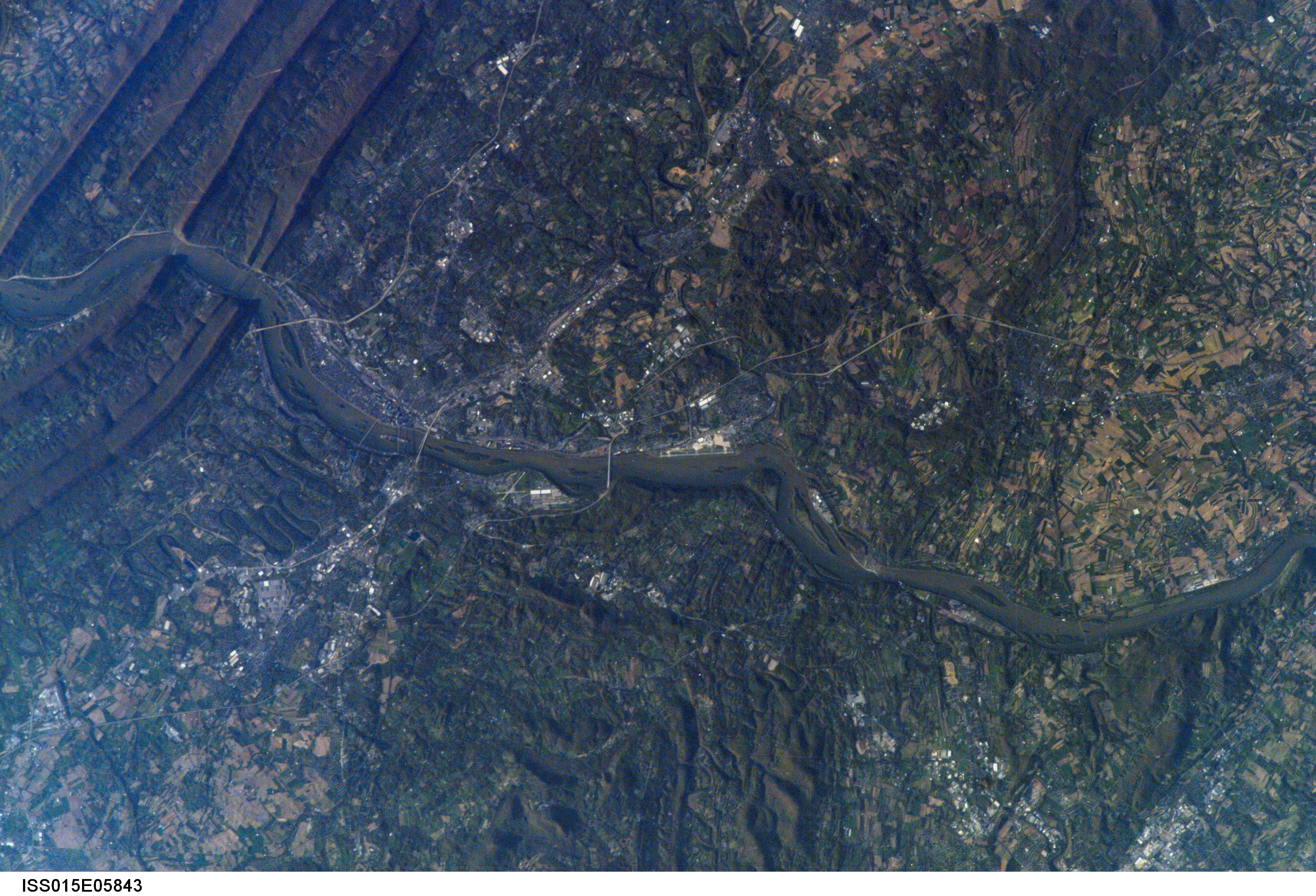 Harrisburg, Pennsylvania as seen from ISS on 30 April 2007.